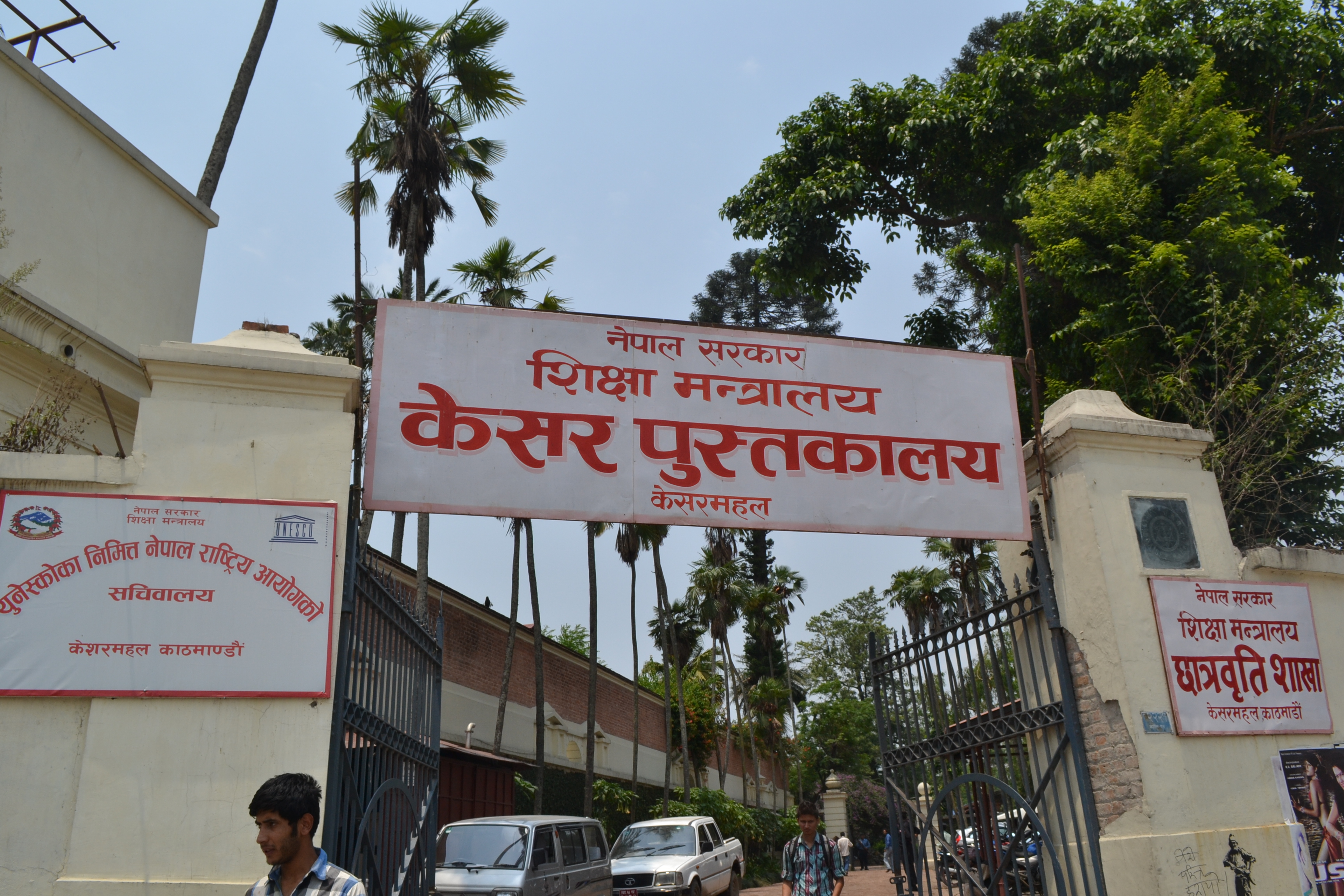 Education Ministry of Nepal.